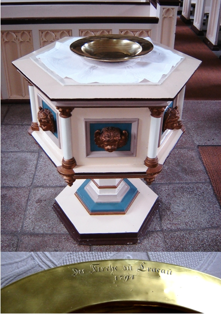 The baptismal font of the St.-Briccius-Church in Magdeburg-Cracau